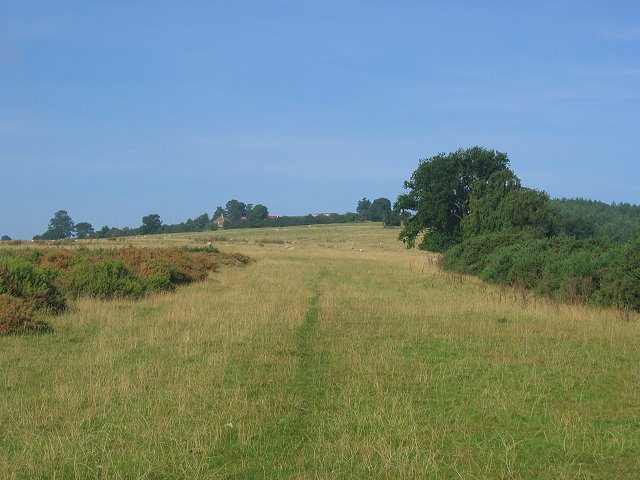 Hanway Common. Large area of the dip slope of the Ludlow Anticline that is outwith the deer park , its also in Shropshire and has avoided the forestry. Until the late 1960s it was arable and very productive, a practice introduced in wartime. Since then it has been a sheepwalk, and is slowly becoming overgrown with gorse. Not bracken,yet,thank goodness.